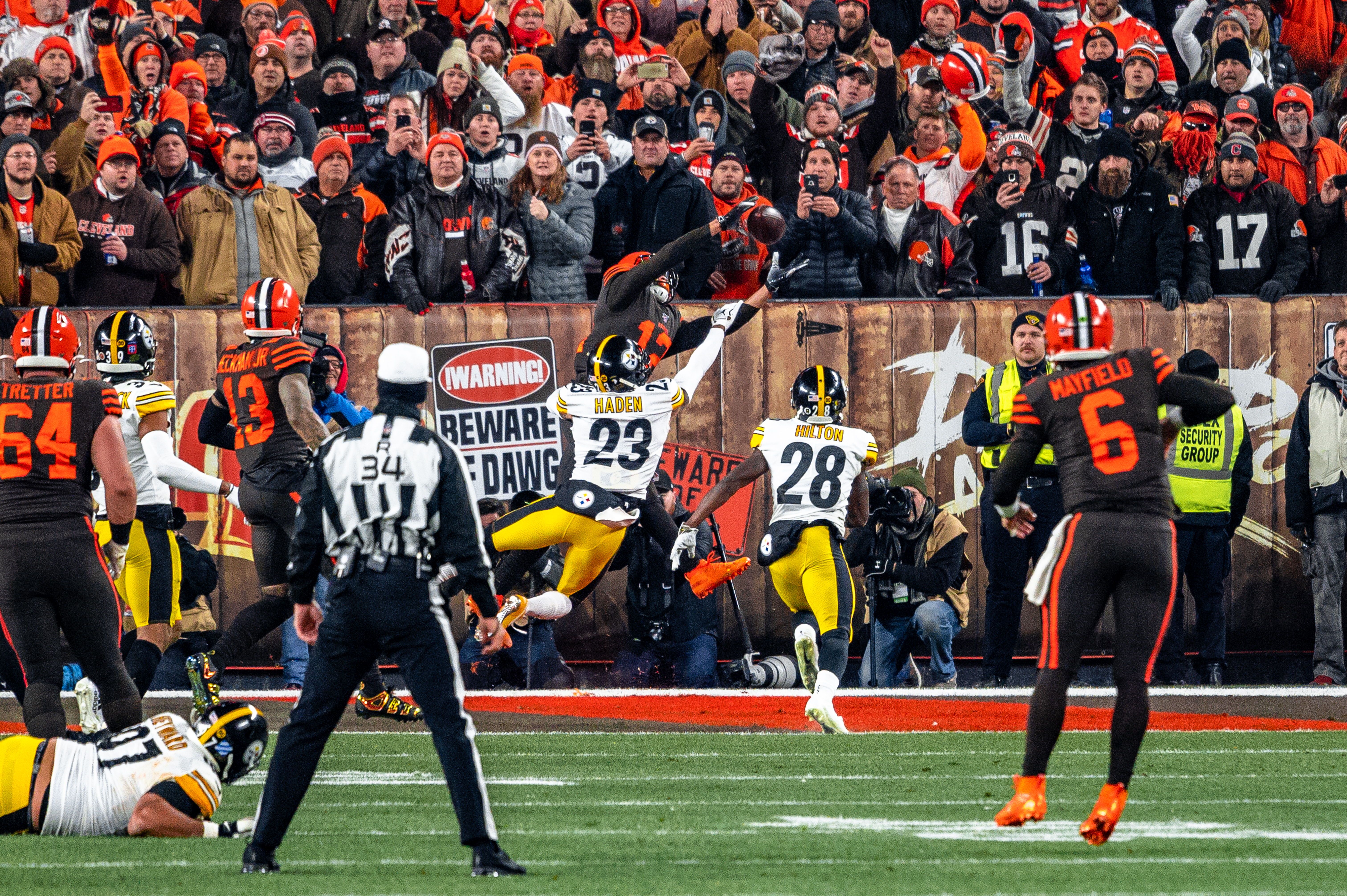 Steelers vs Browns 2019